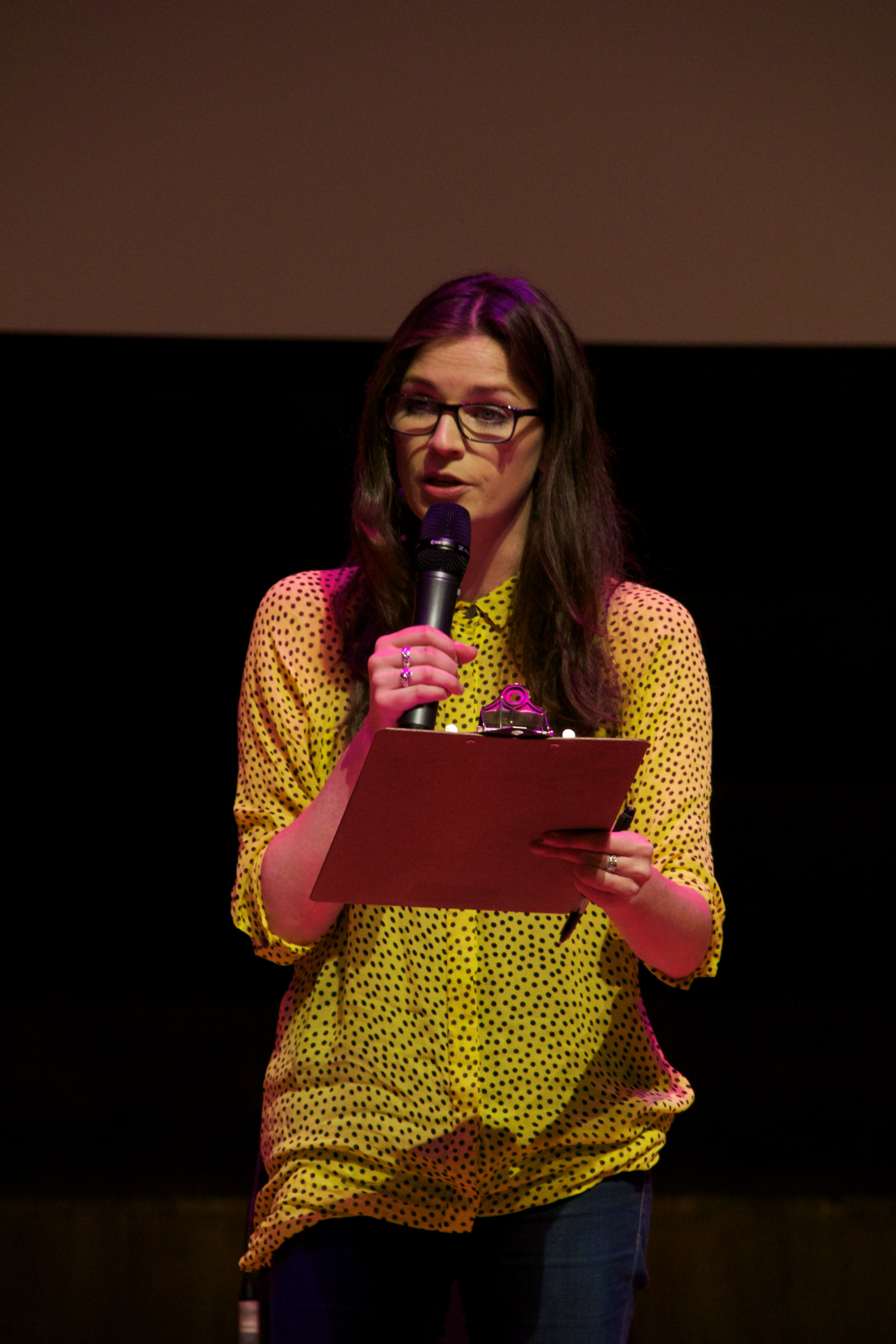 Wikimania 2014 - Aisling Bea.